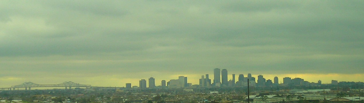 New Orleans Skyline at dusk, 02/02/2007, taken by Nicolas Larchet, seen from above the Industrial Canal between Gentilly and the Upper Ninth Ward.